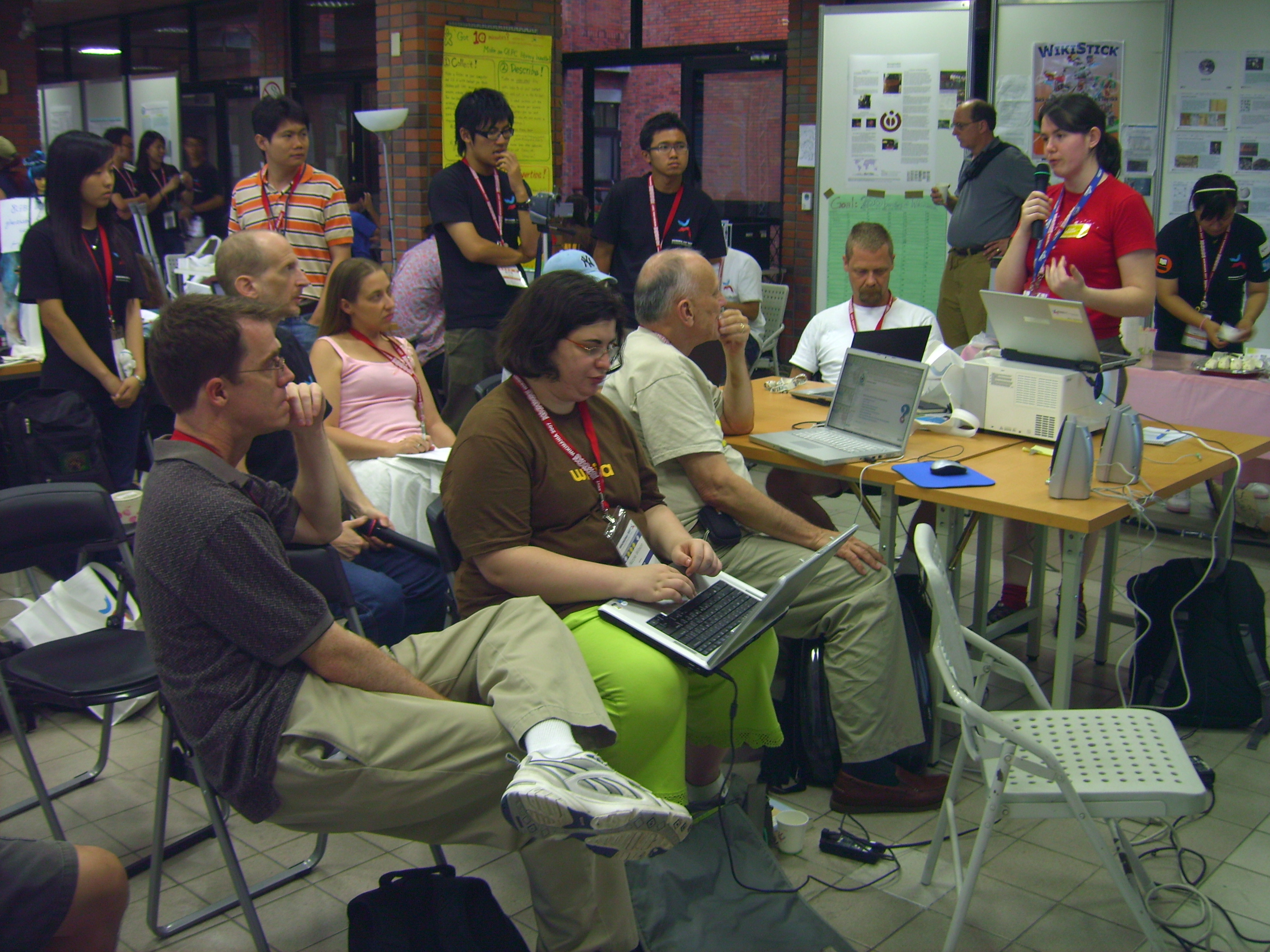 Wikimania 2007 Session 706: Commons Tutorial.